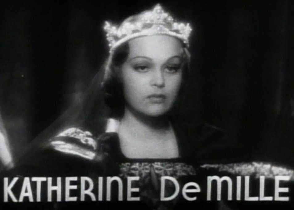 Katherine DeMille in The Crusades - trailer (cropped screenshot)